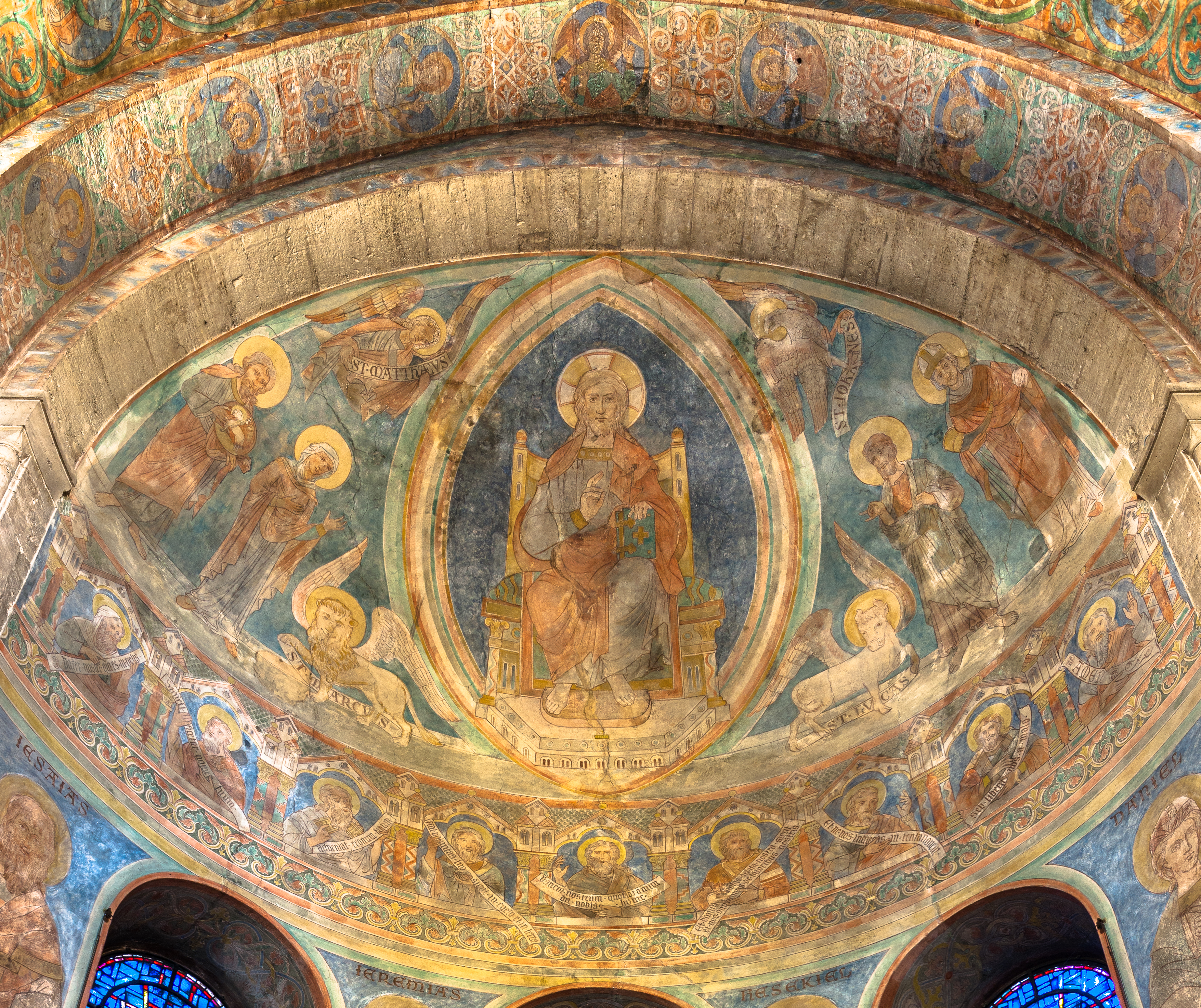 Brunswick Cathedral St. Blasii, painting in the apsis (Christ Pantocrator)